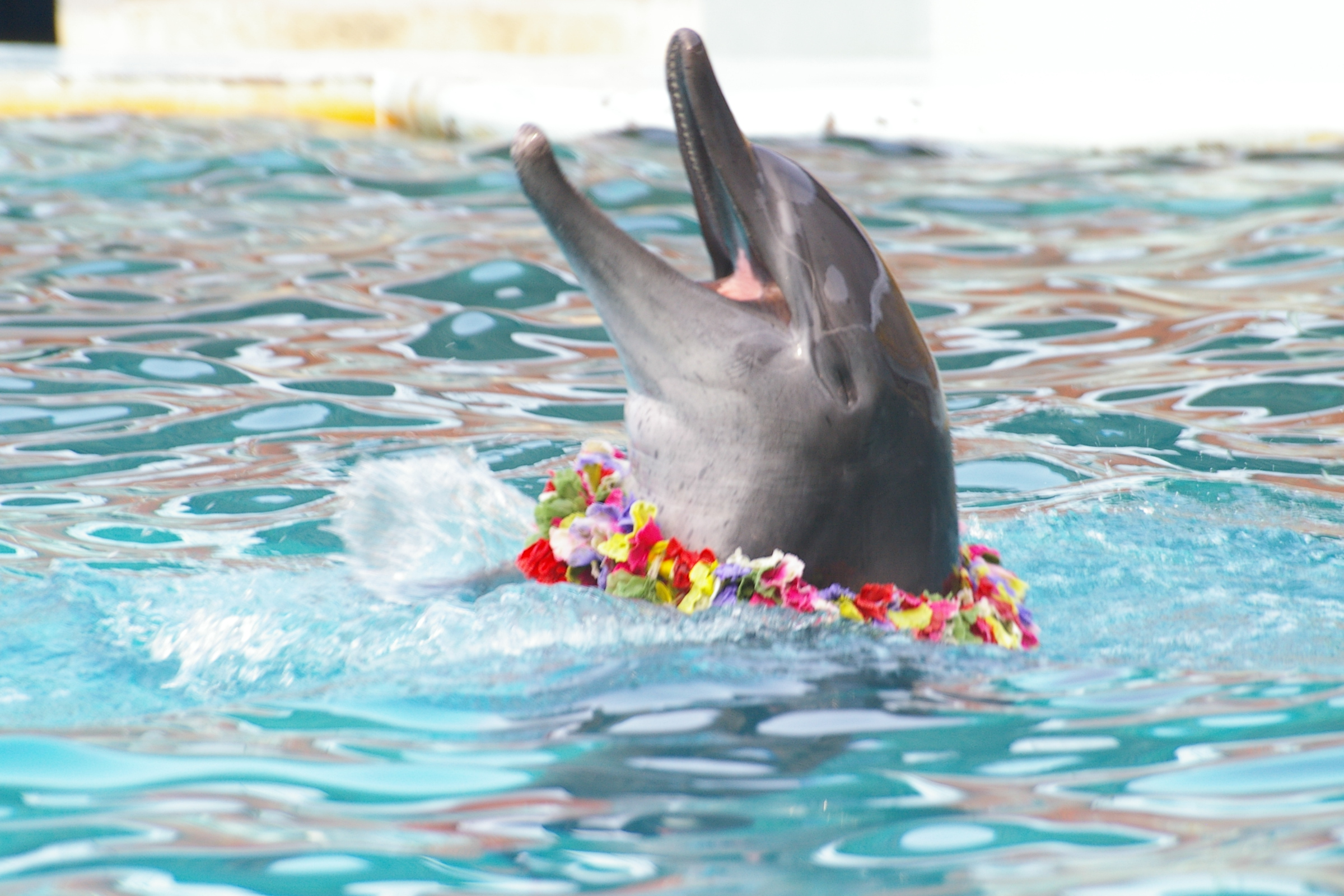 Dolphin Show_OW